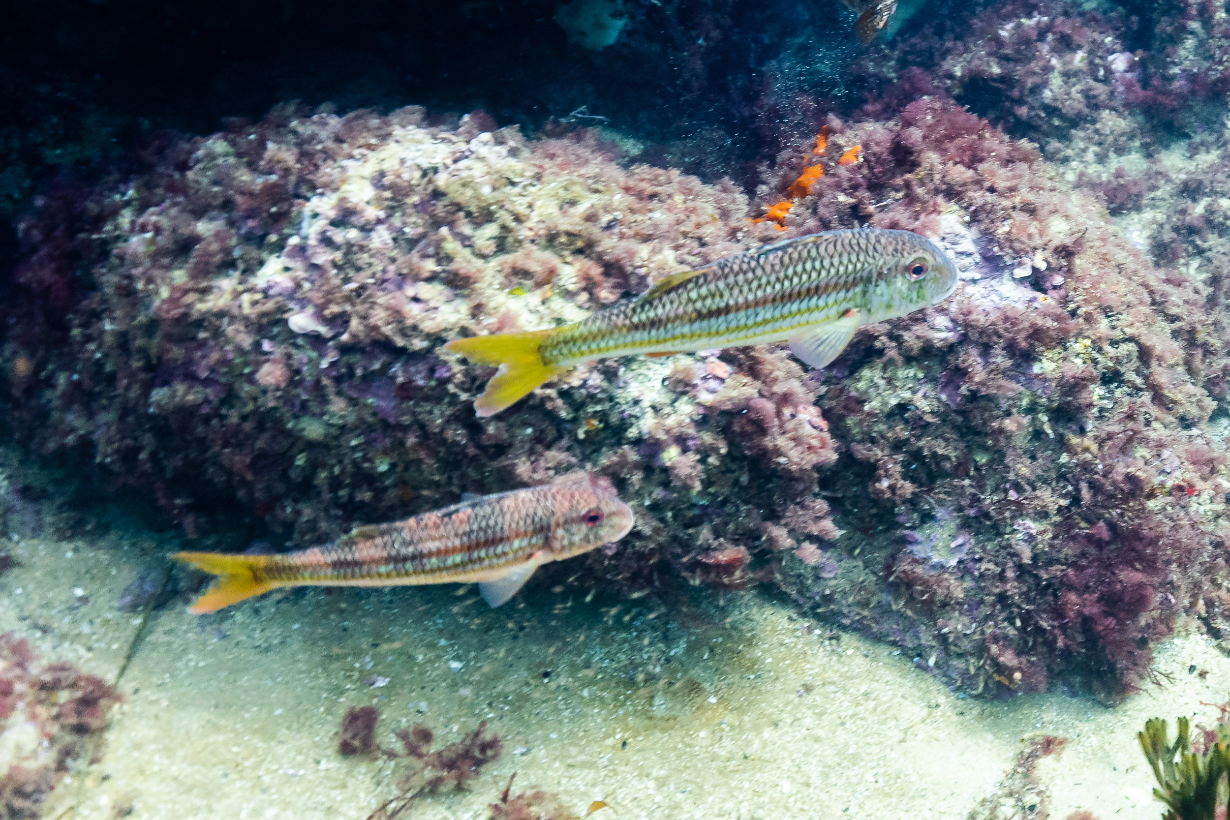 Striped red mullet (mullus surmuletus), Mouro Island, Santander, Spain